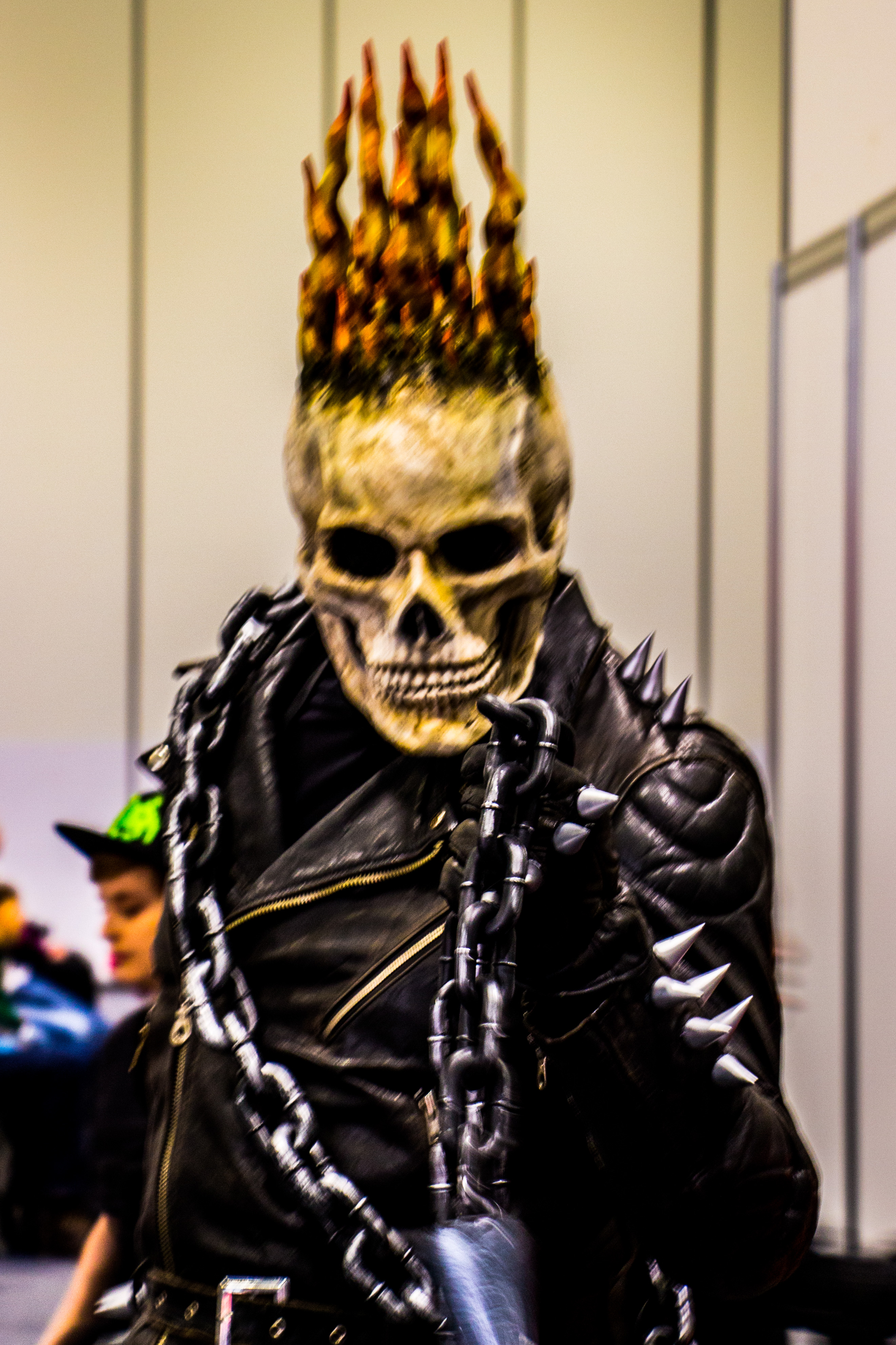 Cosplay of Ghost Rider (from Marvel Comcis) at London Super Comic Con (LSCC) 2016.